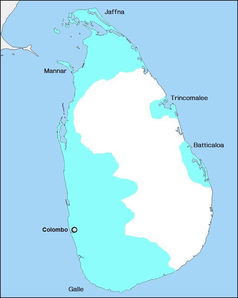 Extent of Portuguese rule in Ceylon